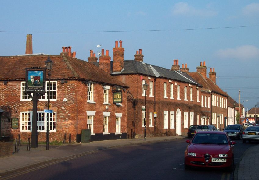 The Old Brewery, Theale, Berkshire, England.